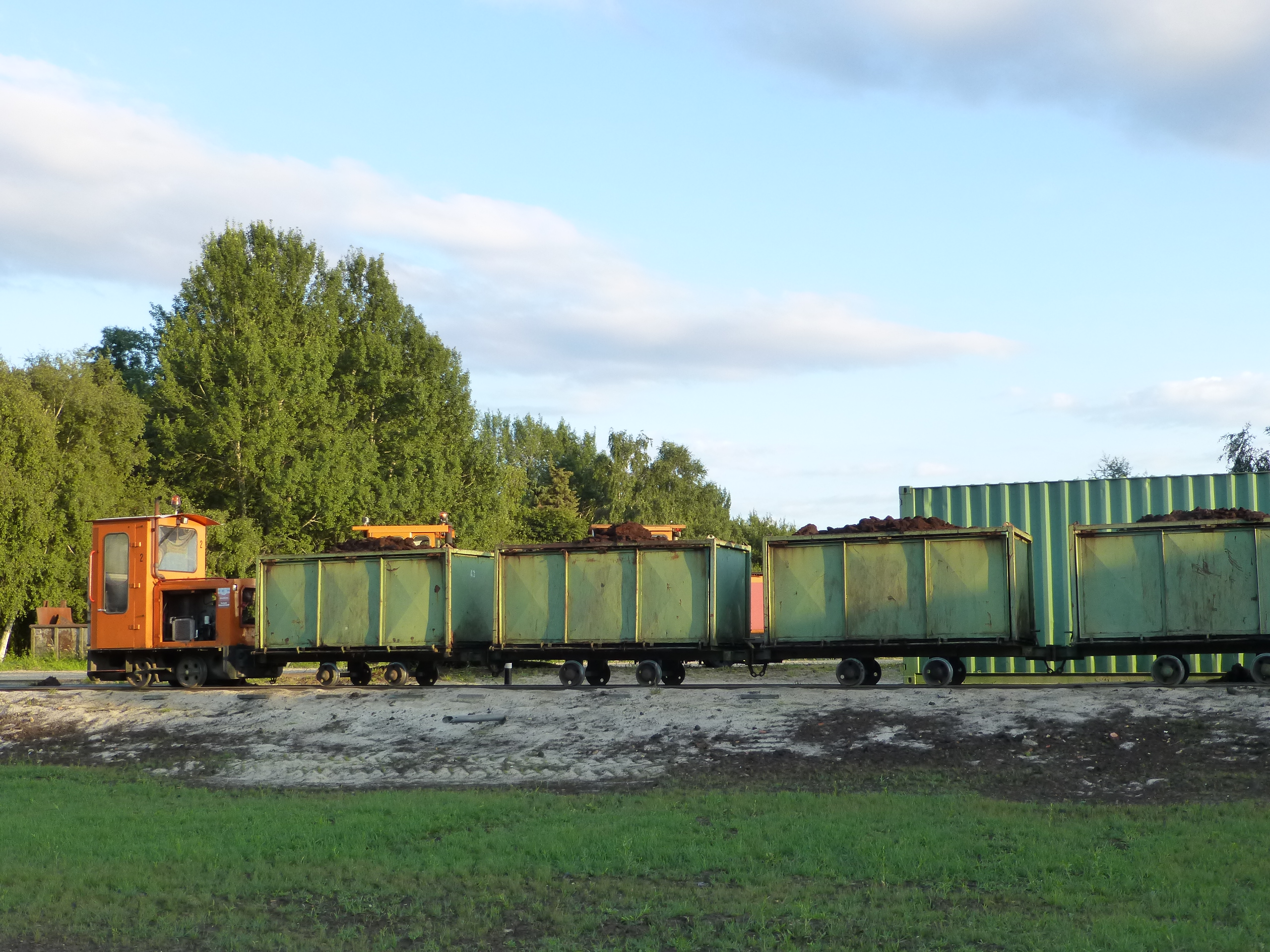 A train on the peat railway at Vehnemoor peat works